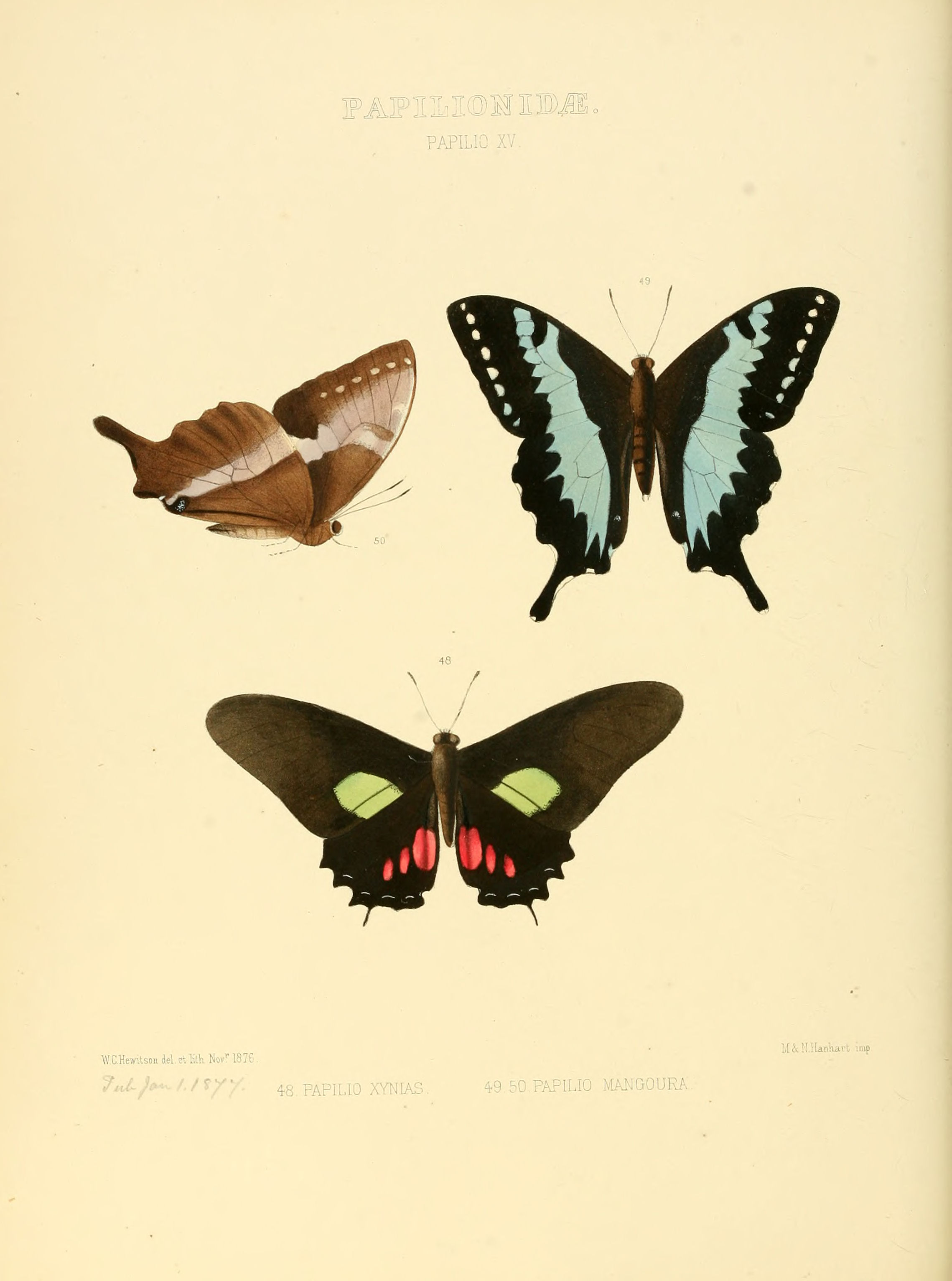 Plate: Papilio XV Papilio xynias. Fig. 48. Accepted as Mimoides xynias (Hewitson, 1875). Papilio mangoura. Figs. 49, 50. Accepted as Papilio mangoura Hewitson, 1875.